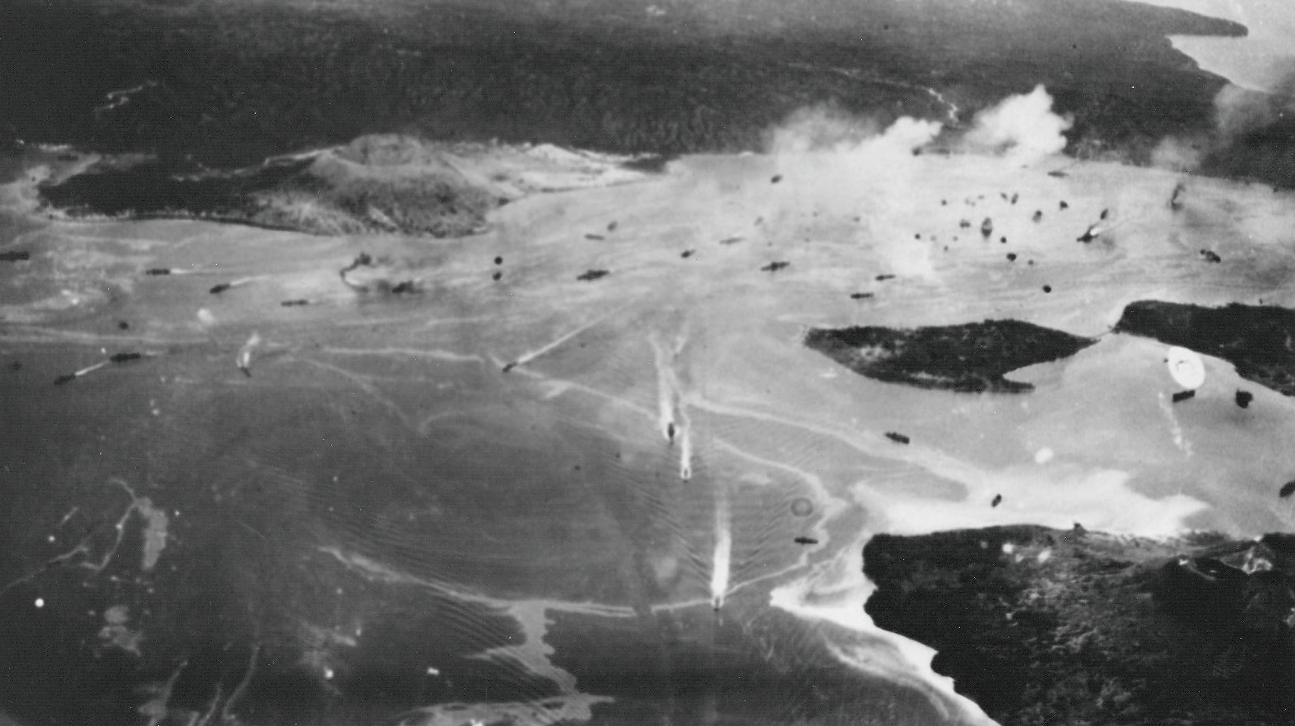 Japanese warships refueling at Simpson's harbor attempt to get underway as US navy air attack commences.